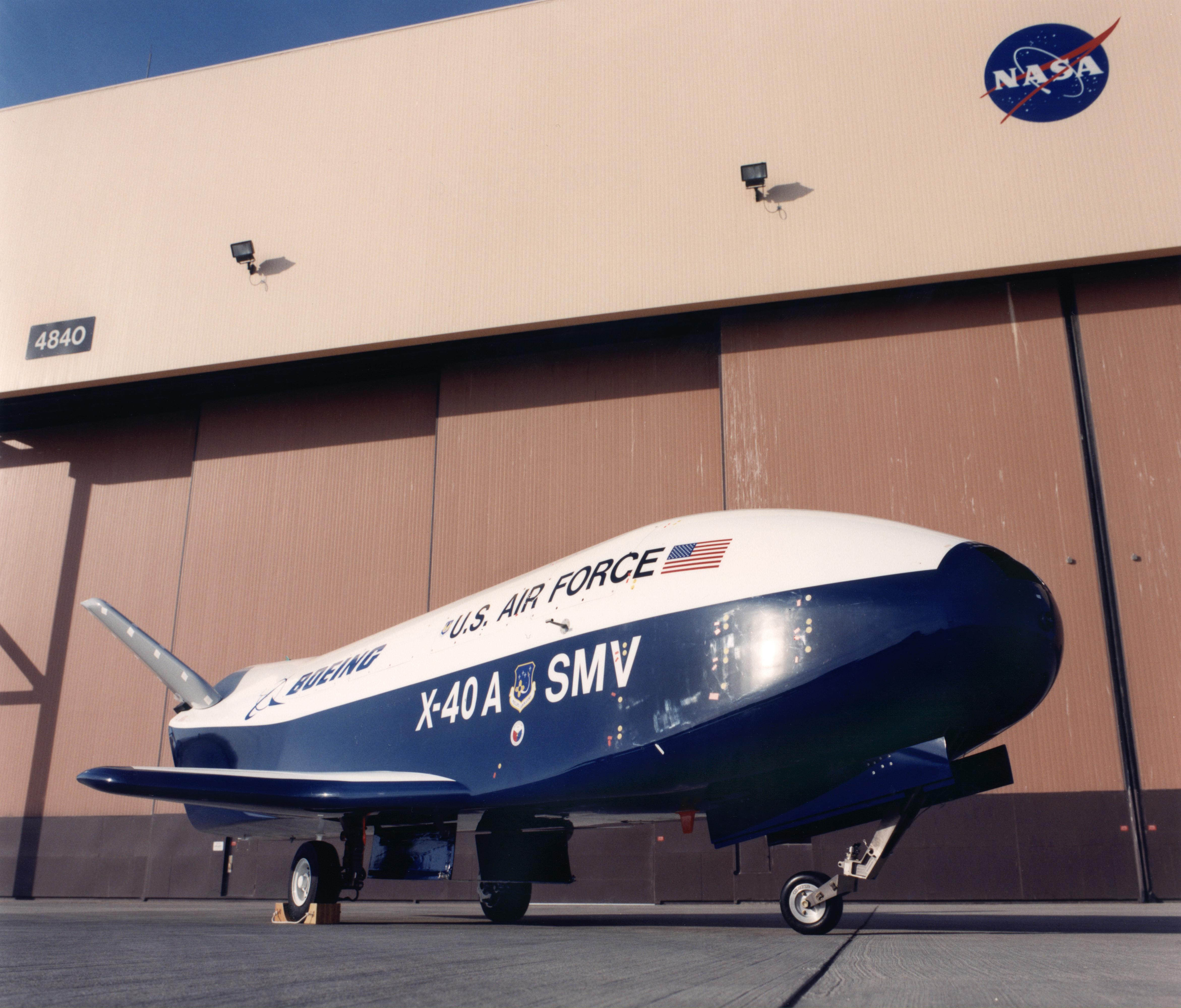 The X-40A SMV being delivered to NASA Dryden Flight Research Centerat Edwards, California. Marking a major milestone in the X-37 project, an 85-percent scale test vehicle of the experimental space plane was delivered to NASA for flight testing. The X-40A test vehicle, first built for the Air Force by the Boeing Company at its Seal Beach, Calif., facility, and successfully flight tested at Holloman Air Force Base, N.M., was shipped from Boeing to NASA's Dryden Flight Research Center at Edwards, Calif. NASA's Marshall Space Flight Center in Huntsville, Ala, manages the X-37 project. At Dryden, the X-40A underwent a series of ground and air tests to reduce possible risks to the larger X-37 - including drop tests from a helicopter to check guidance and navigation systems planned for use in the X-37. The X-37 is designed to demonstrate technologies in the orbital and reentry environments for next-generation reusable launch vehicles that will increase both safety and reliability, while reducing launch costs from $10,000 per pound to $1,000 per pound. The X-37, carried into orbit by the Space Shuttle, is planned to fly two orbital missions to test reusable launch vehicle technologies. NASA Identifier: NIX-EC00-0155-6